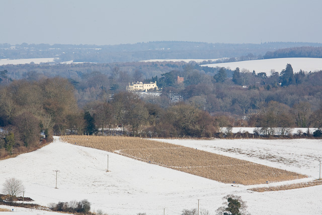 Brockwood Park from Beacon Hill The cream coloured building is Brockwood Park school, . It is seen at a distance of 4.2 Km from the top of Beacon Hill. I don't know what the brick tower to its right is.